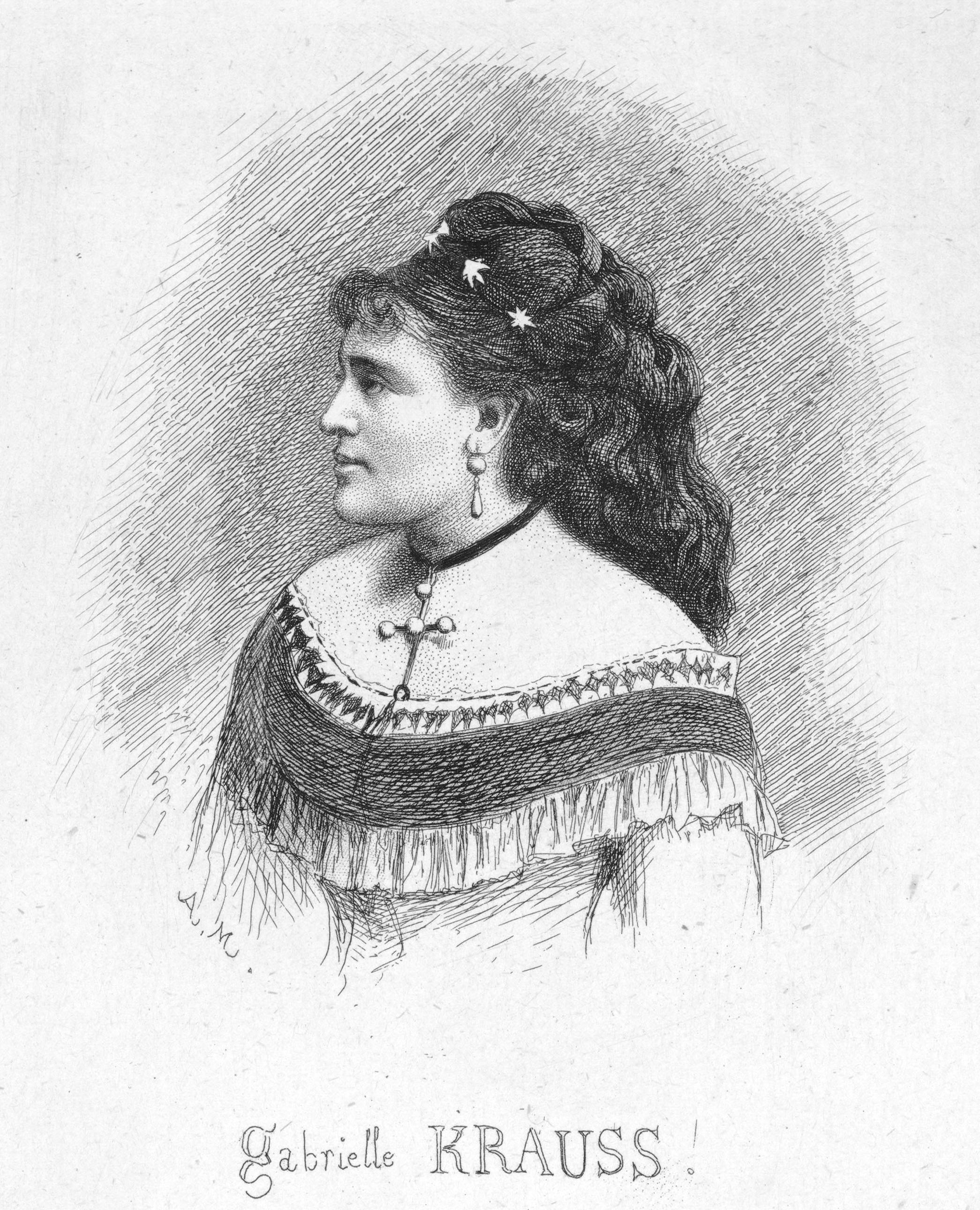 Soprano Gabrielle Krauss (1842–1906), engraving (15 x 12 cm)